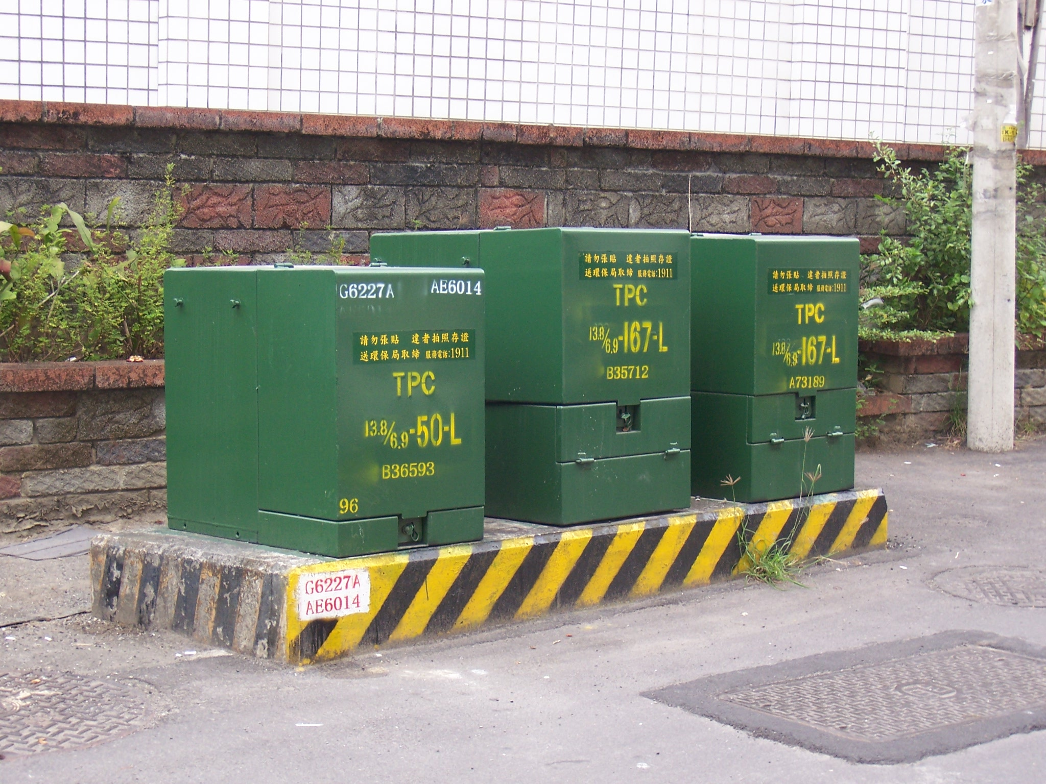 A transformer with a Taiwan Power Company grid number. This picture is taken in Wufong Township, Taichung County, Taiwan.